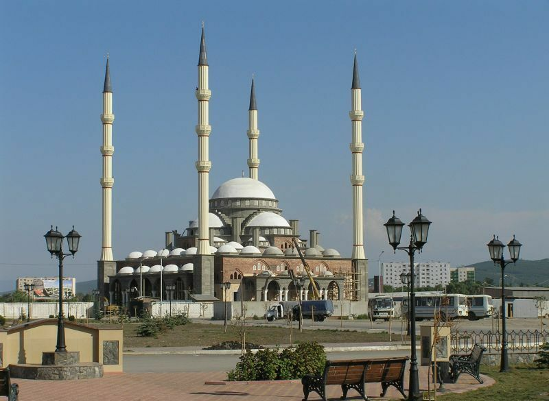 A new Mosque constructed in Grozny is name to Akhmad Kadyrov.